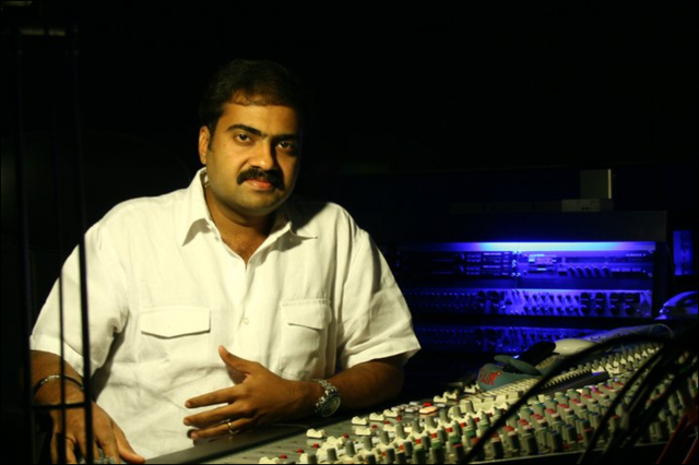 Rajakrishnan MR